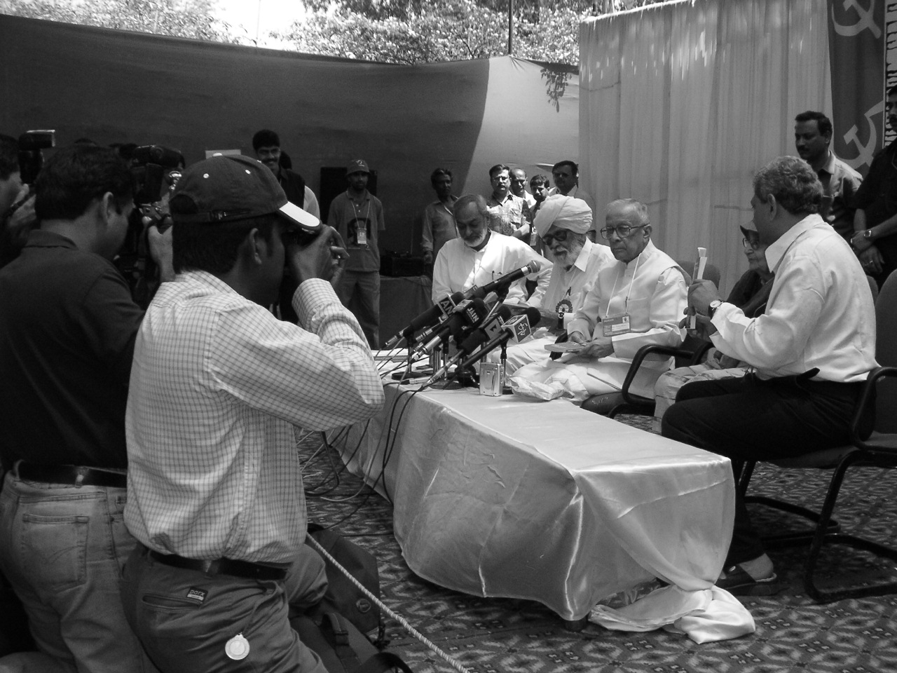 Press conference at the book release of "Memoirs - 25 Communist Freedom Fighters" by Sitaram Yechuri at the 18th congress of Communist Party of India (Marxist), Delhi, 2005. From the left, PMS Grewal (CPI(M) leader in Delhi), Harkishan Singh Surjeet (general secretary), Jyoti Basu (former Chief Minister of West Bengal), Lakshmi Sehgal (captain in the Indian National Army) and Sitaram Yechuri (politburo member). Photo: Soman